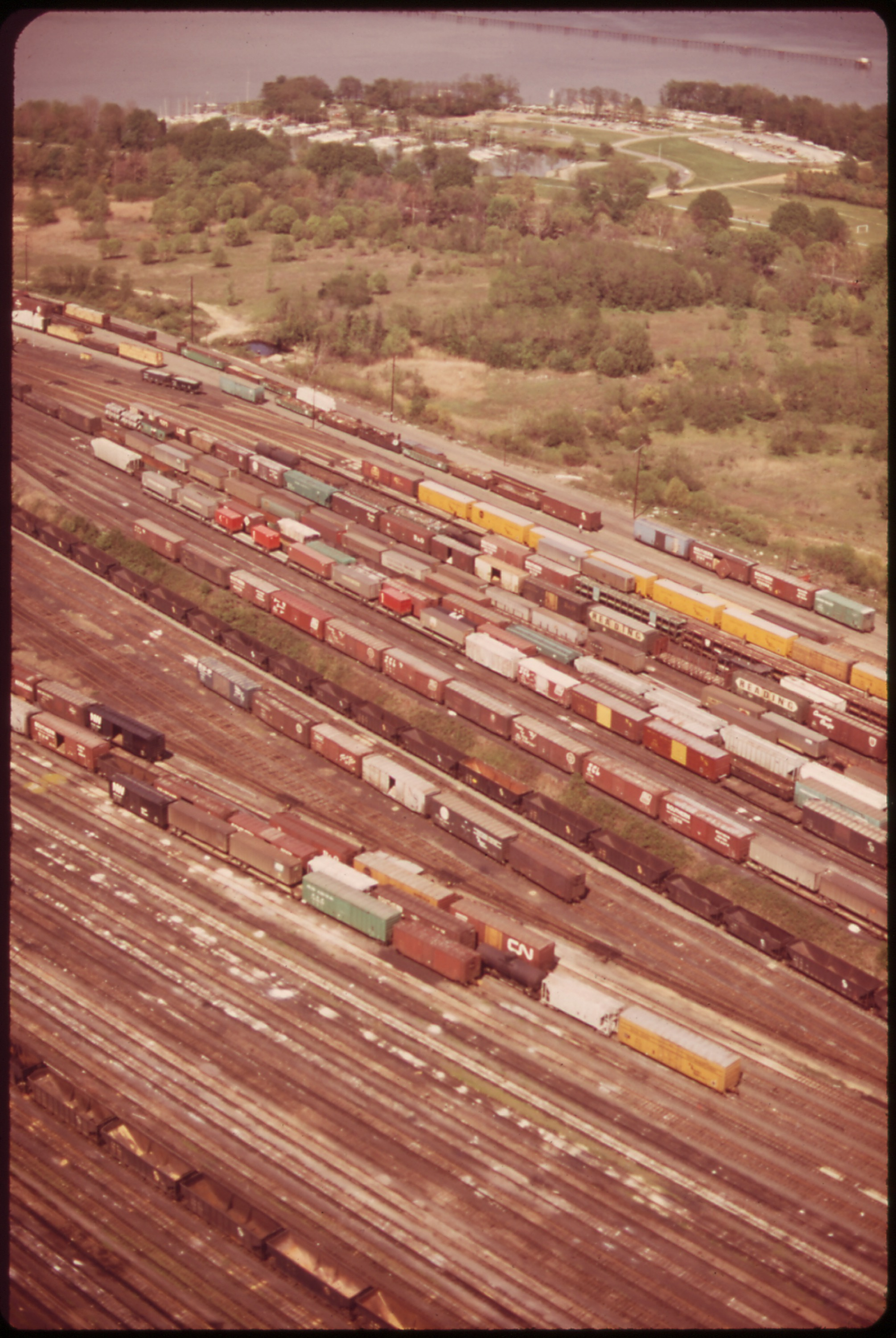 Potomac Yard, Arlington and Alexandria, Virginia. (The airport is not seen in the photo.)